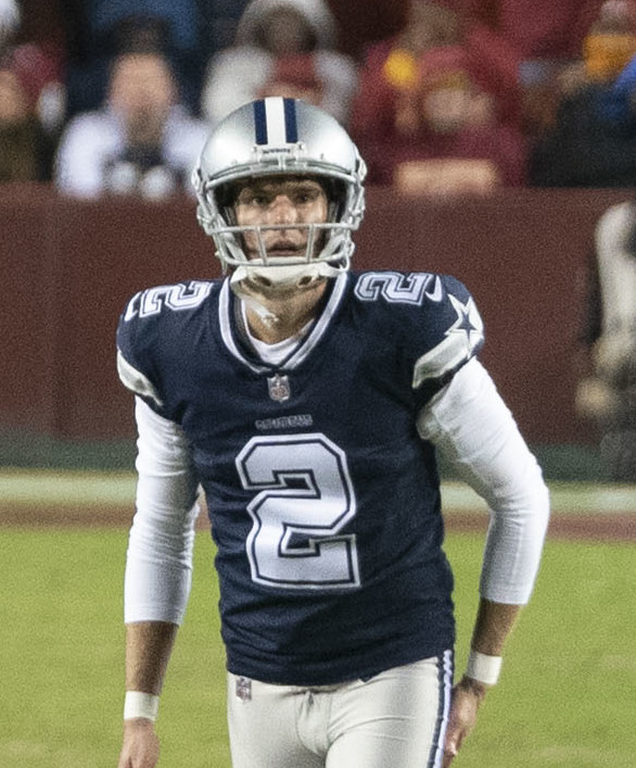 Cowboys at Redskins 10/21/18